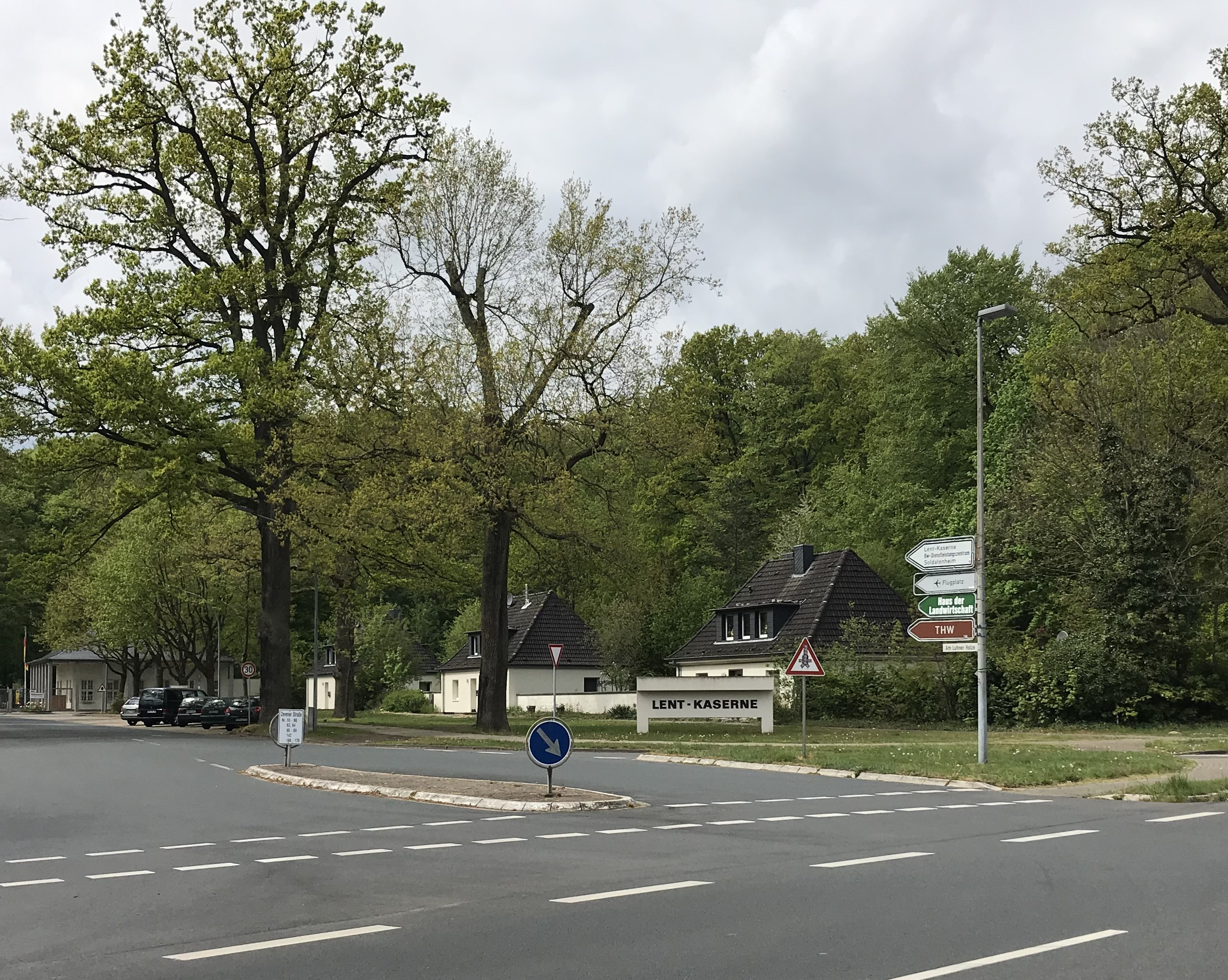 The entrance of the Lent Barracks (Lent Kaserne) in Rotenburg (Wümme) subject to be renamed